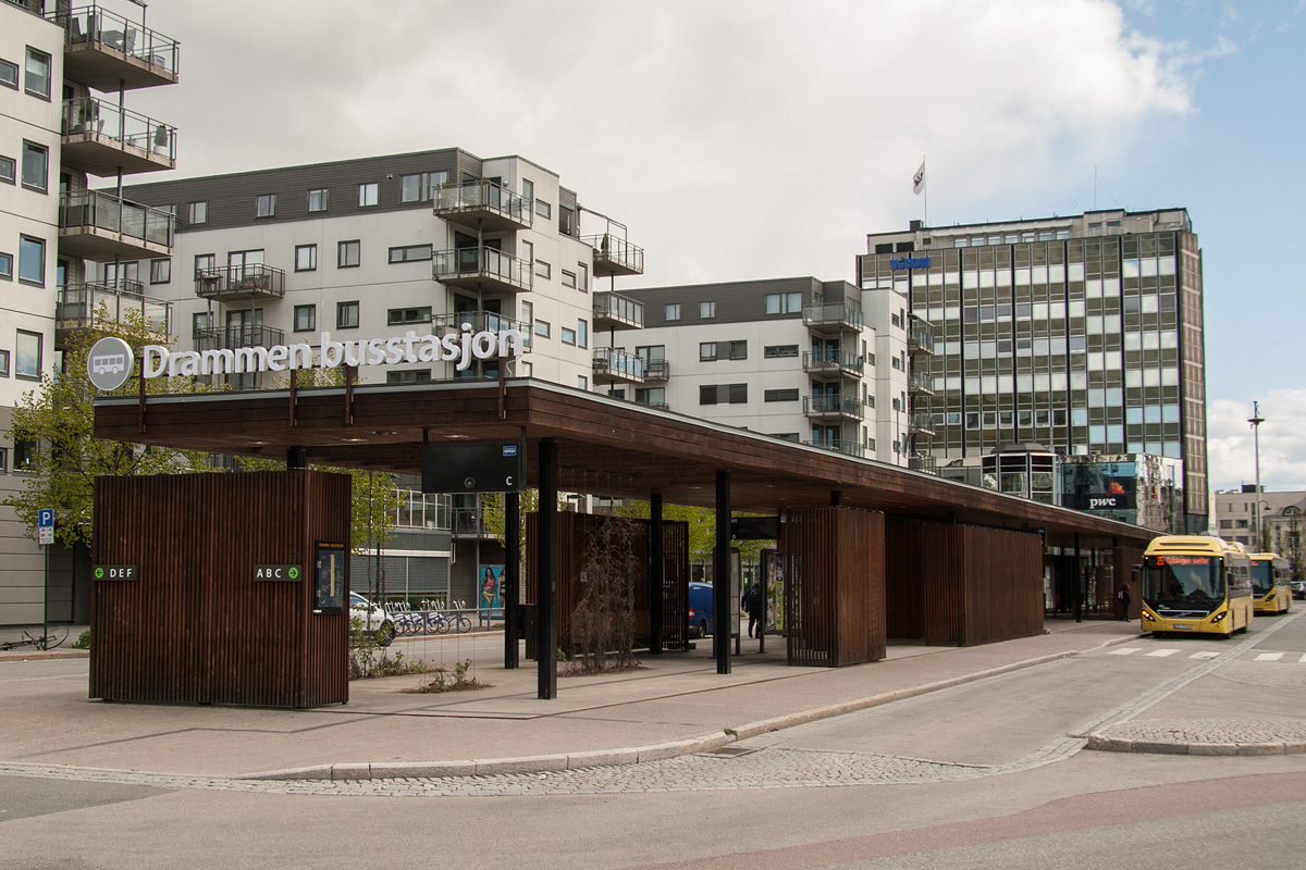 Drammen busstasjon (